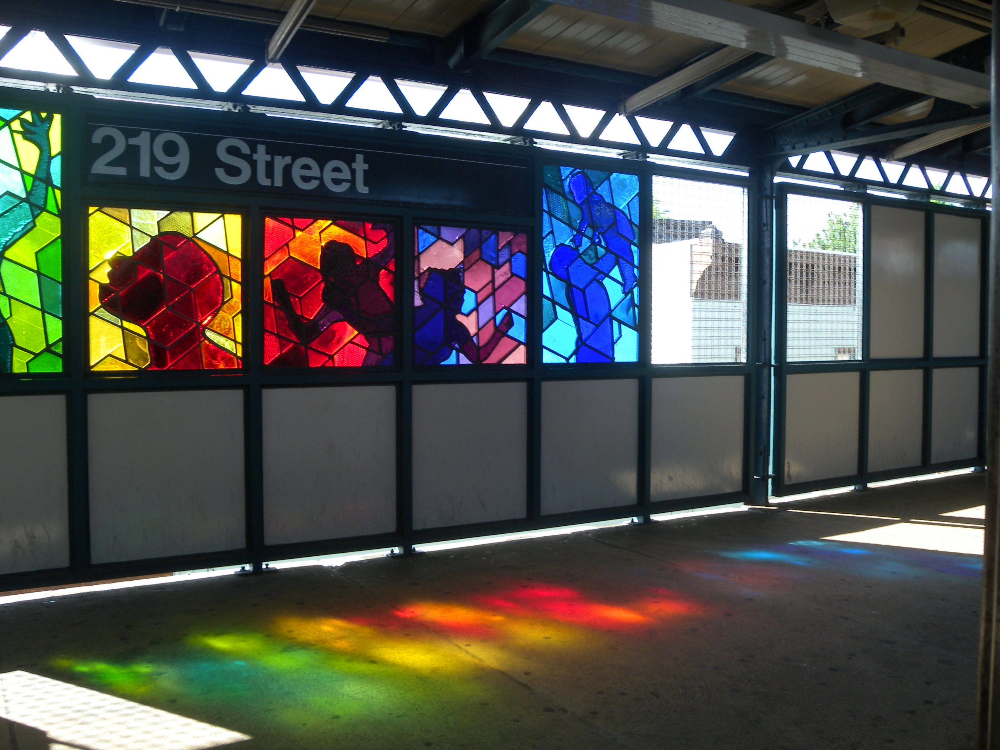 Looking west at 219 St southbound platform on a sunny afternoon.